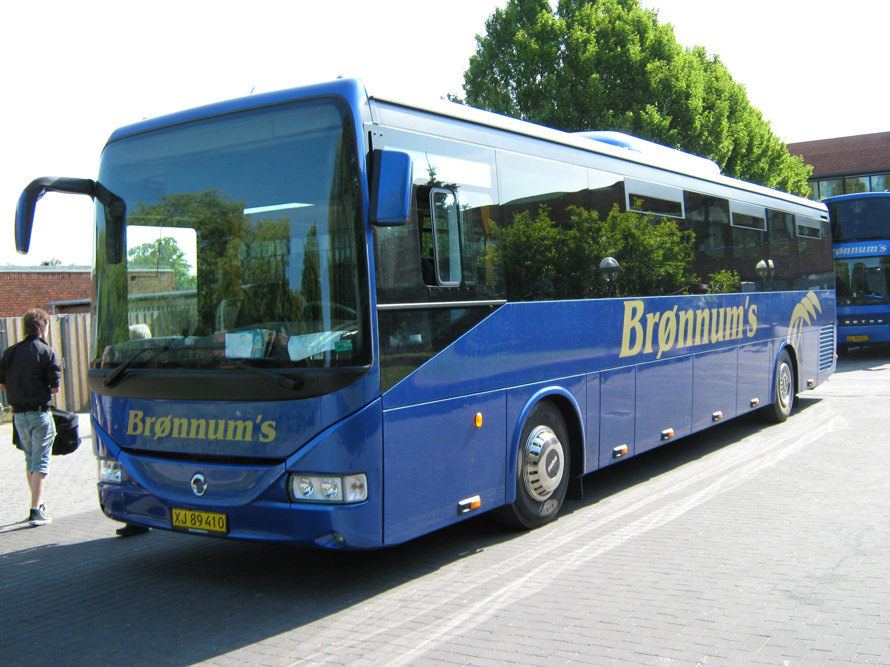 Irisbus Arway photographed in Ballerup, Copenhagen, Denmark. Own work.